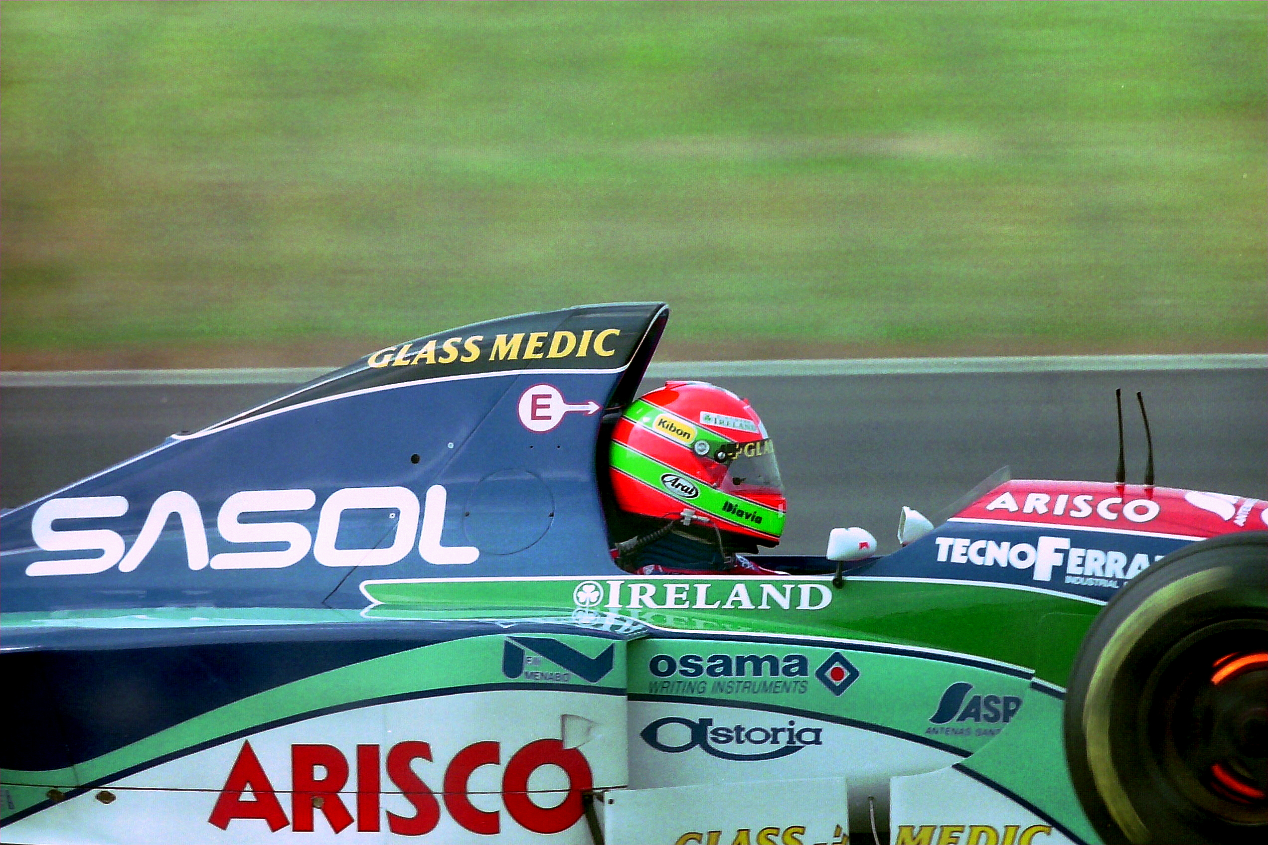 Eddie Irvine - Jordan 194 at the 1994 British Grand Prix